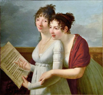 A portrait of Julie and Desiree Clary